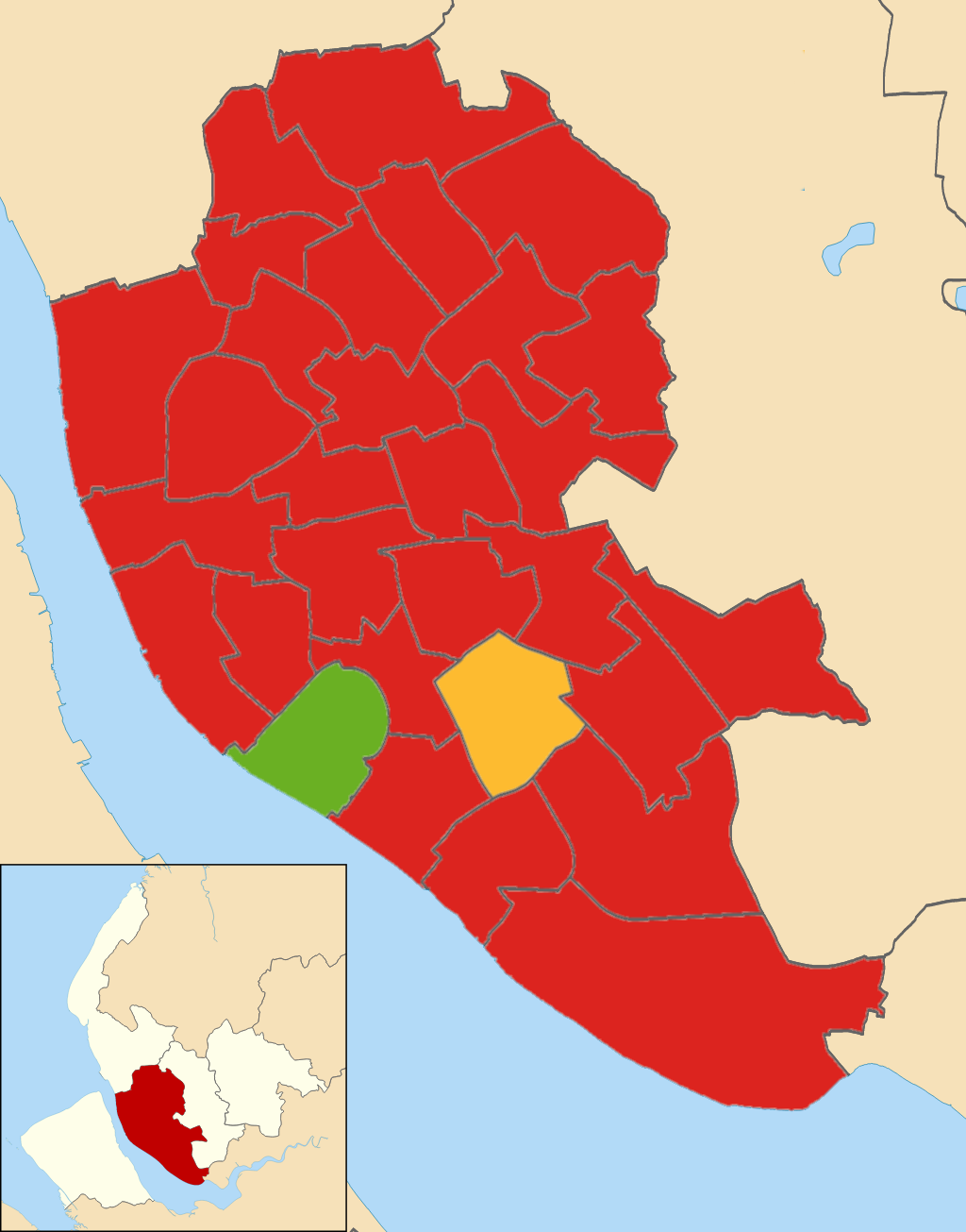 Results of the 2015 local elections in Liverpool Colours: Labour Liberal Democrat Green party of England and Wales